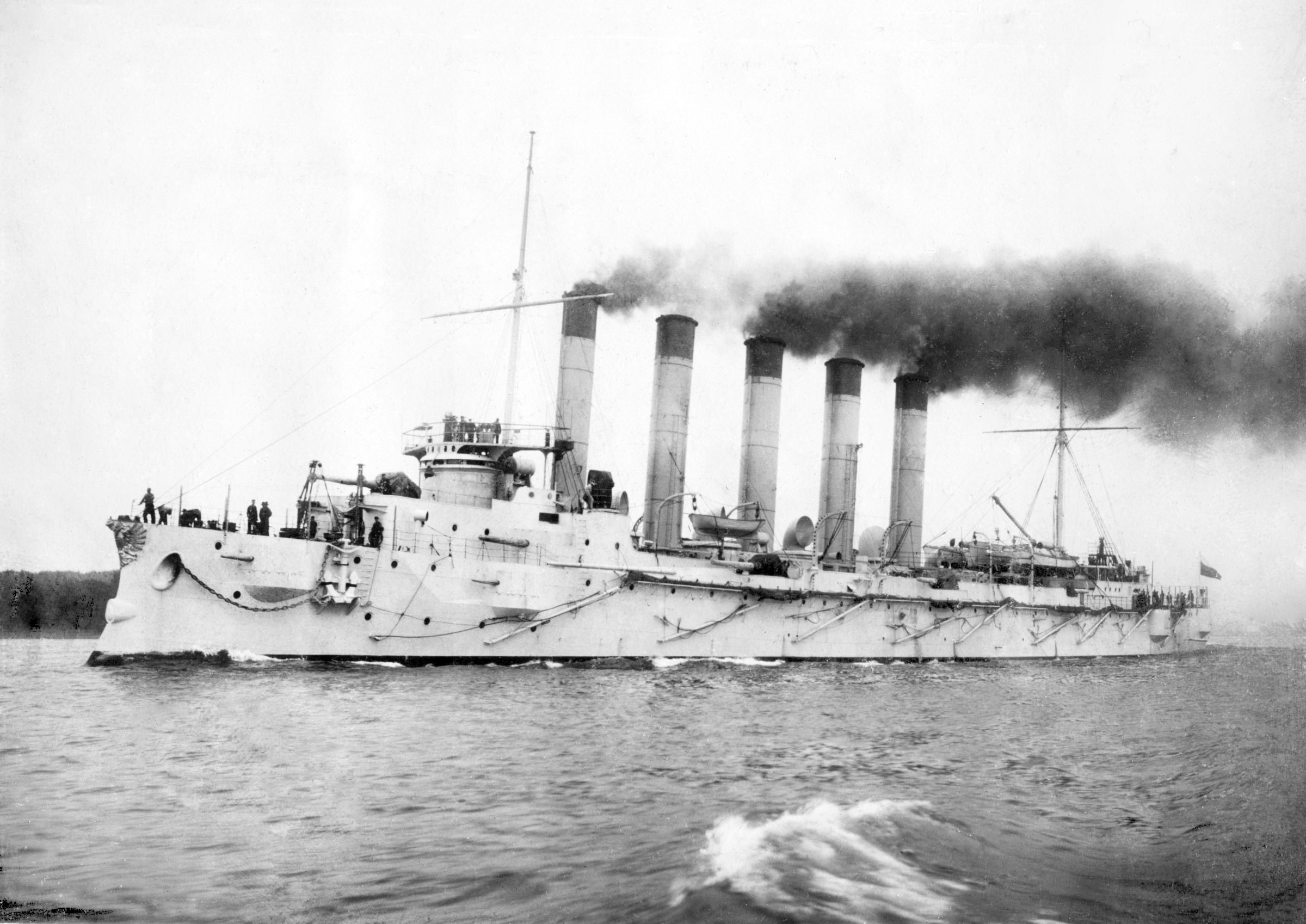 The Imperial Russian protected cruiser Askol'd on the trials in Kiel, Germany.